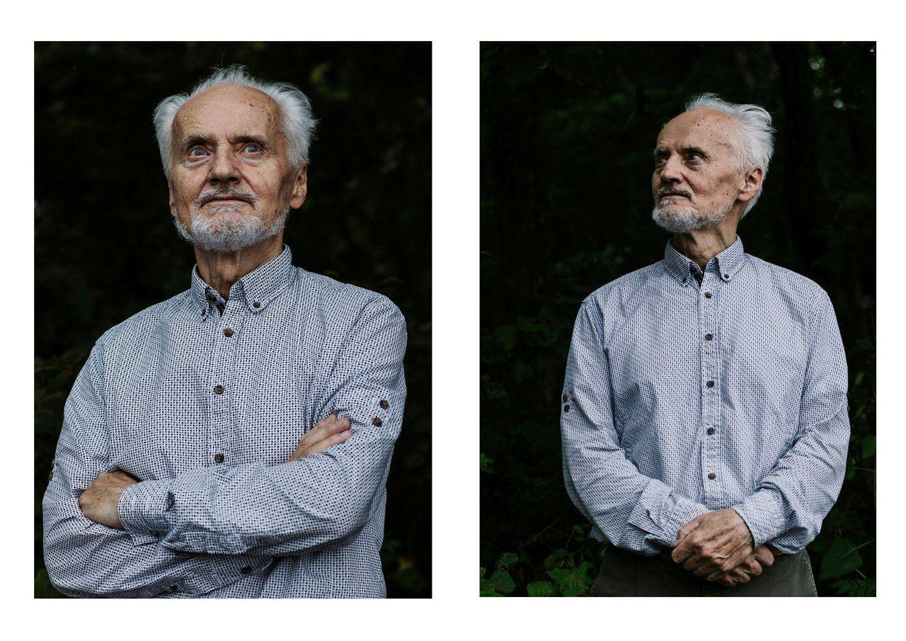 Wilhelm K. Essler in Vladivostok, 2016